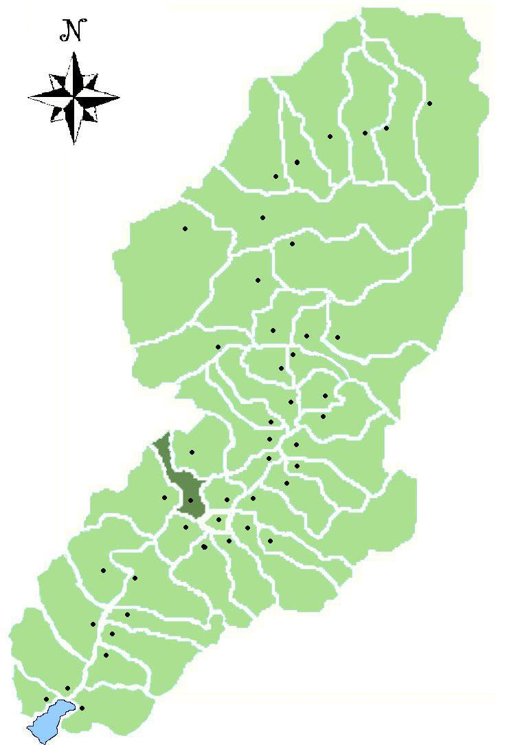 Map of the Comune di Ossimo, Valle Camonica